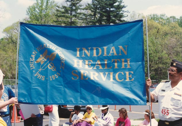 Someone holds up a blue banner that reads "Indian Health Service" When using any IHS Photo Gallery images, please use the following credit line: Photo Courtesy of the Indian Health Service/U.S. Department of Health and Human Services.